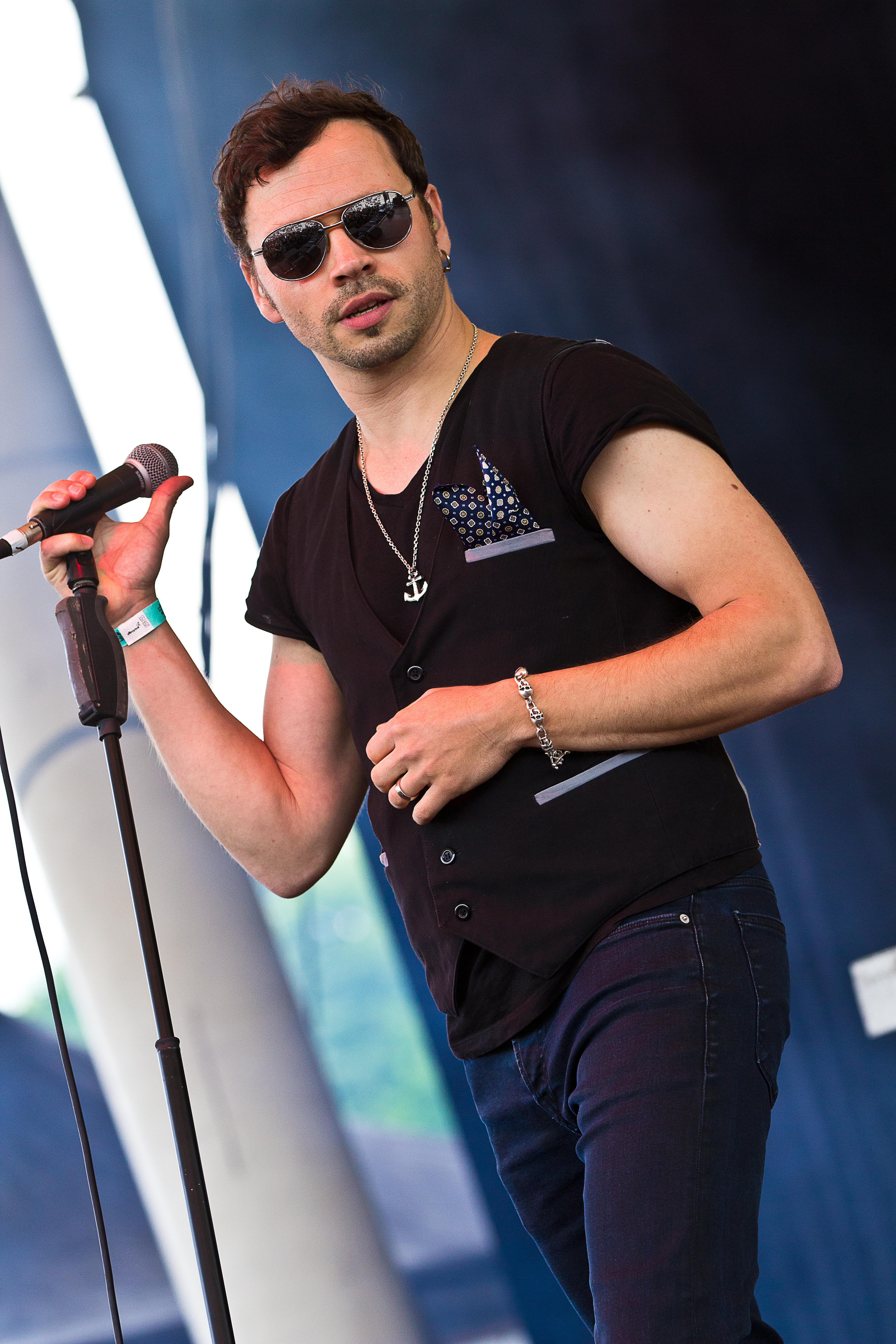 The German pop band SONO at the Blackfield festival 2015 in Gelsenkirchen/Germany.